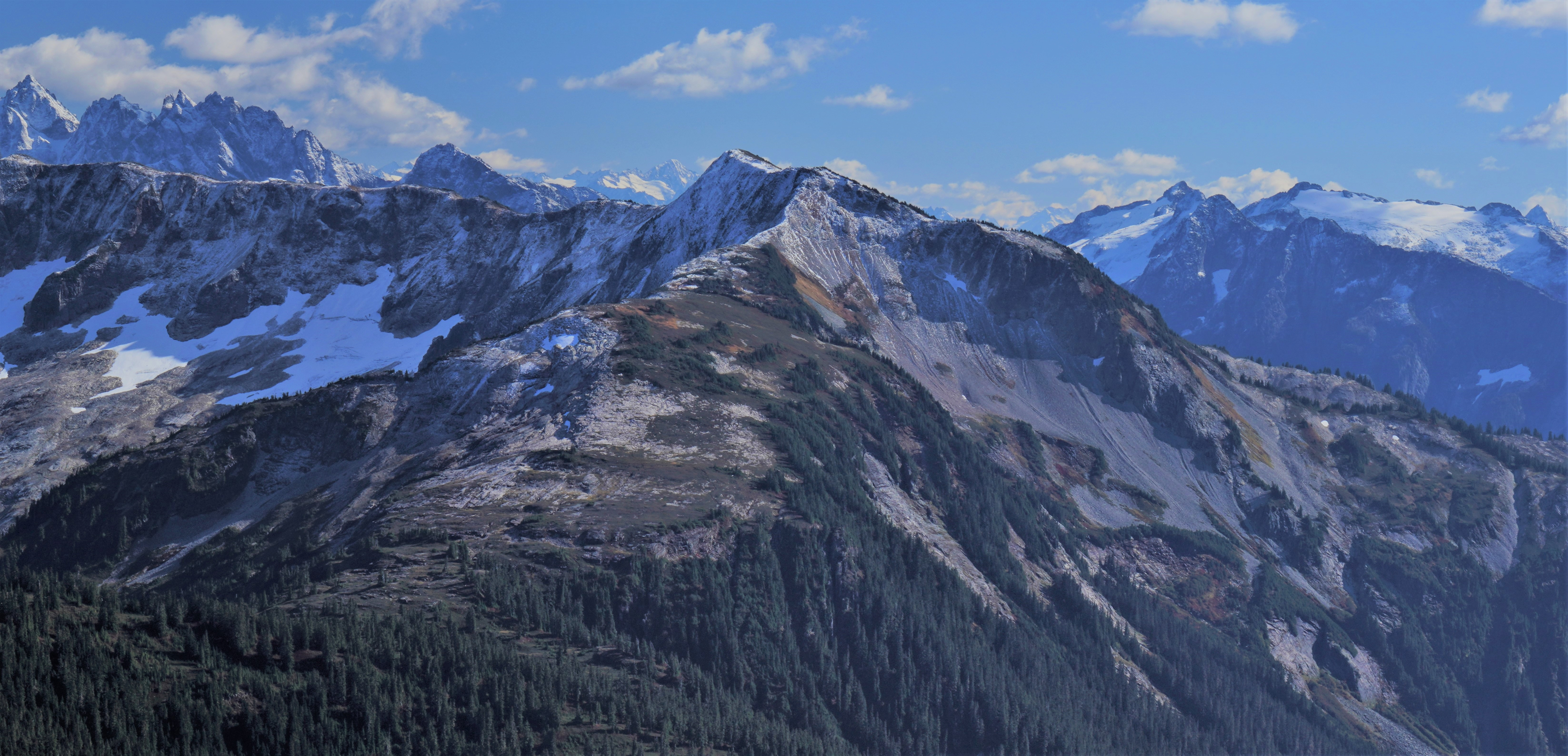 Looking south from Copper Ridge at Easy Peak